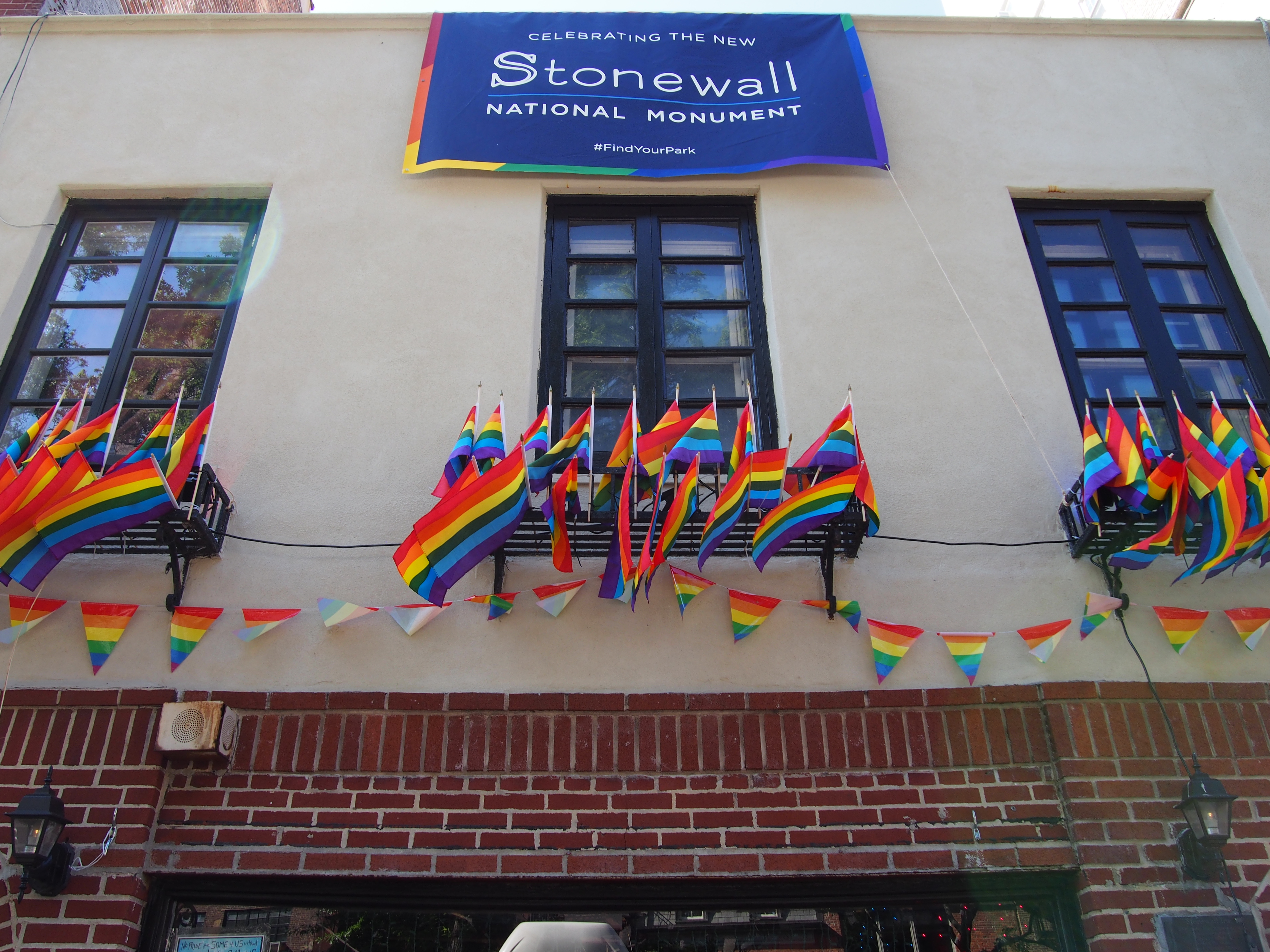 Stonewall Inn, a gay bar on Christopher Street in Manhattan's Greenwich Village. A 1969 police raid here led to the Stonewall riots, one of the most important events in the history of LGBT rights (and the history of the United States). This picture was taken on pride weekend in 2016, the day after President Obama announced the Stonewall National Monument, and less than two weeks after the Pulse nightclub shooting in Orlando.